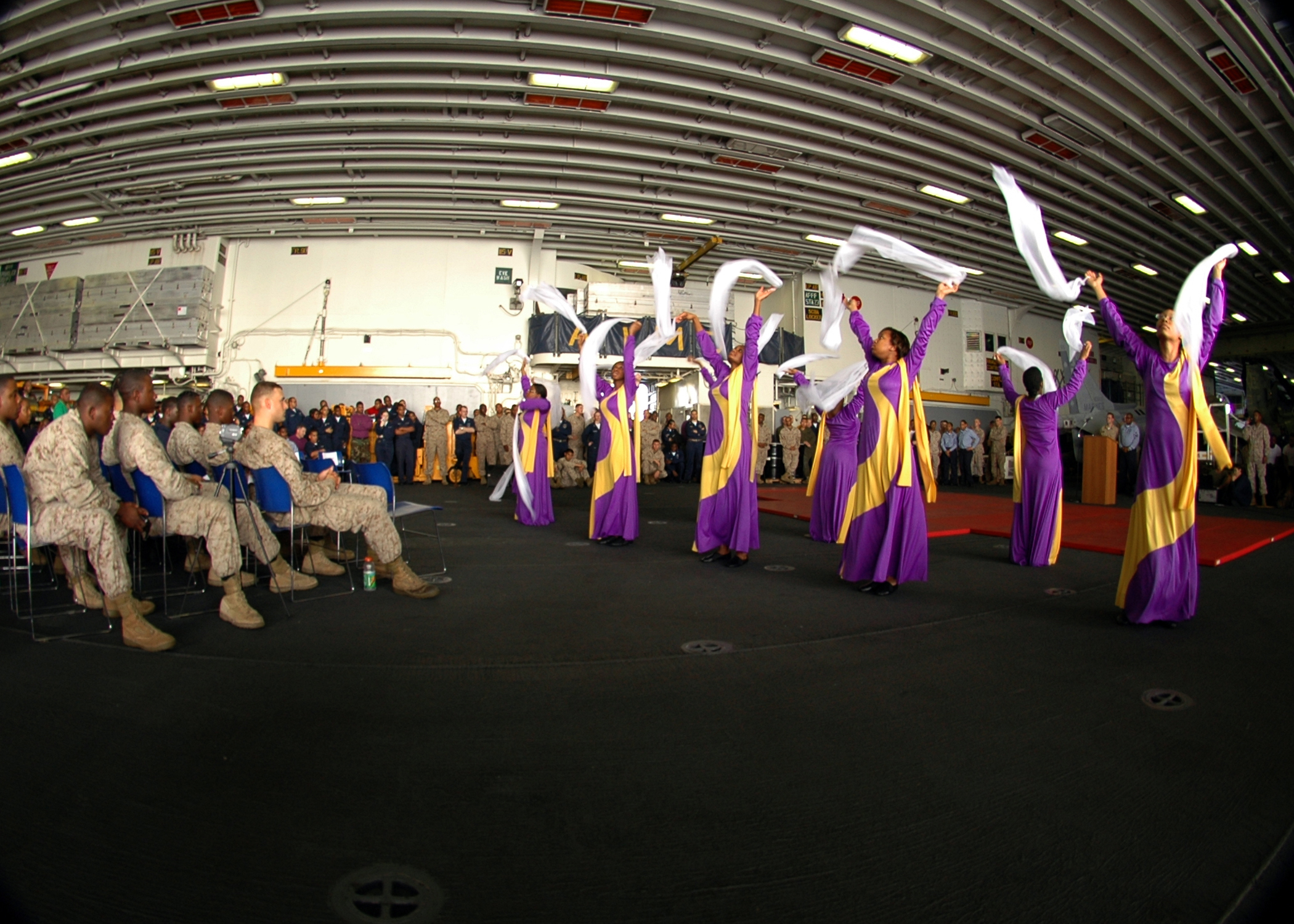 RED SEA (Feb. 26, 2009) Sailors and Marines watch a dance performance during a Black History Month celebration aboard the multi-purpose amphibious assault ship USS Iwo Jima (LHD 7). The theme for the celebration was "The Timeline of African American Music." Iwo Jima is deployed as part of the Iwo Jima Amphibious Ready Group supporting maritime security operations in the U.S. 5th Fleet area of responsibility. (U.S. Navy photo by Mass Communication Specialist Seaman Chad R. Erdmann/Released)